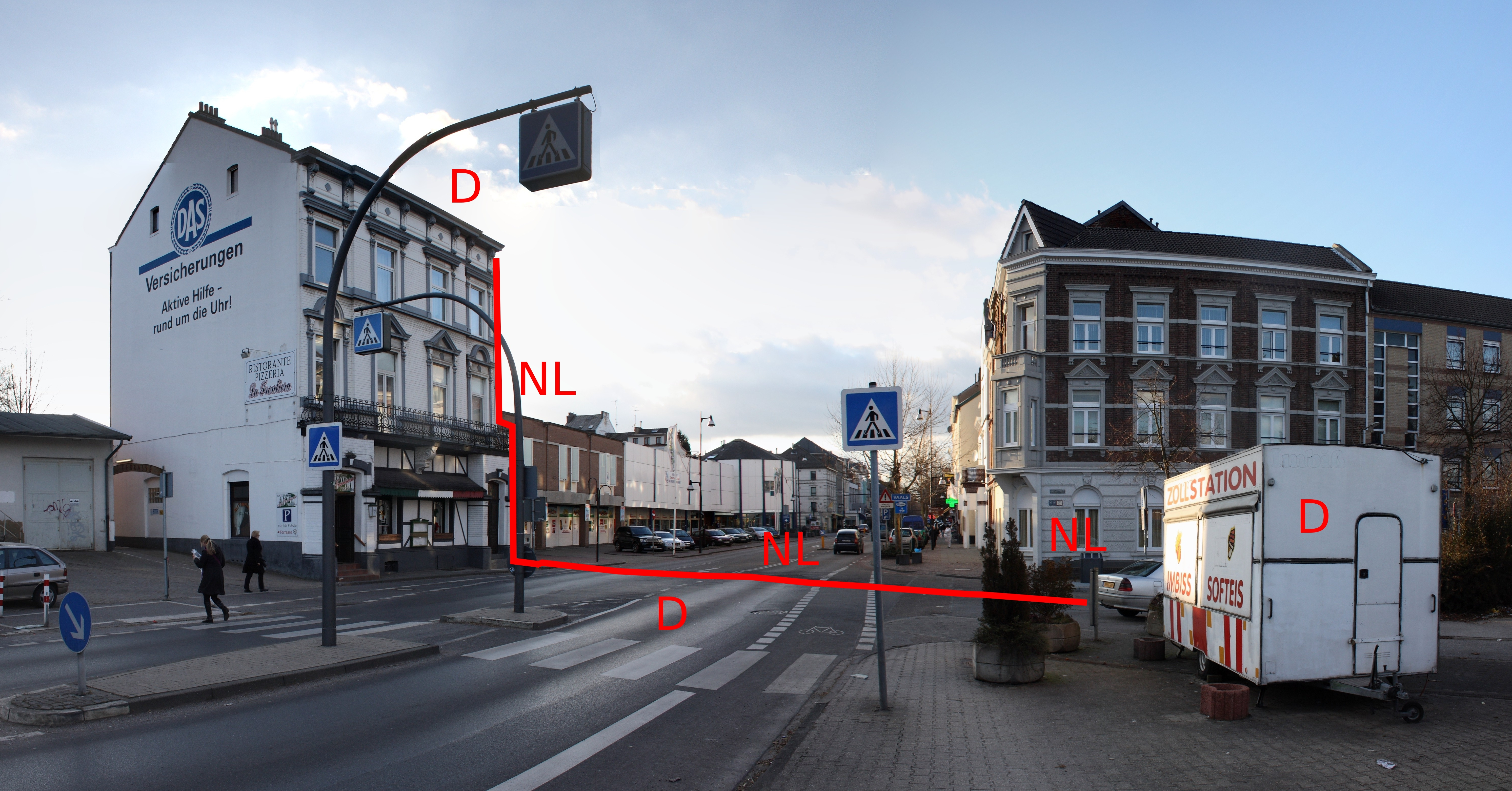 Border between Netherlands and Germany. Camera Location is in Germany, looking into the Netherlands. I am standing next to German Highway B1. Just in front of me Dutch Highway N278 begins. The only customs station (german "Zollstation") is selling french fries - however also this one did not open for several years. The red line I painted into the picture shows the border.